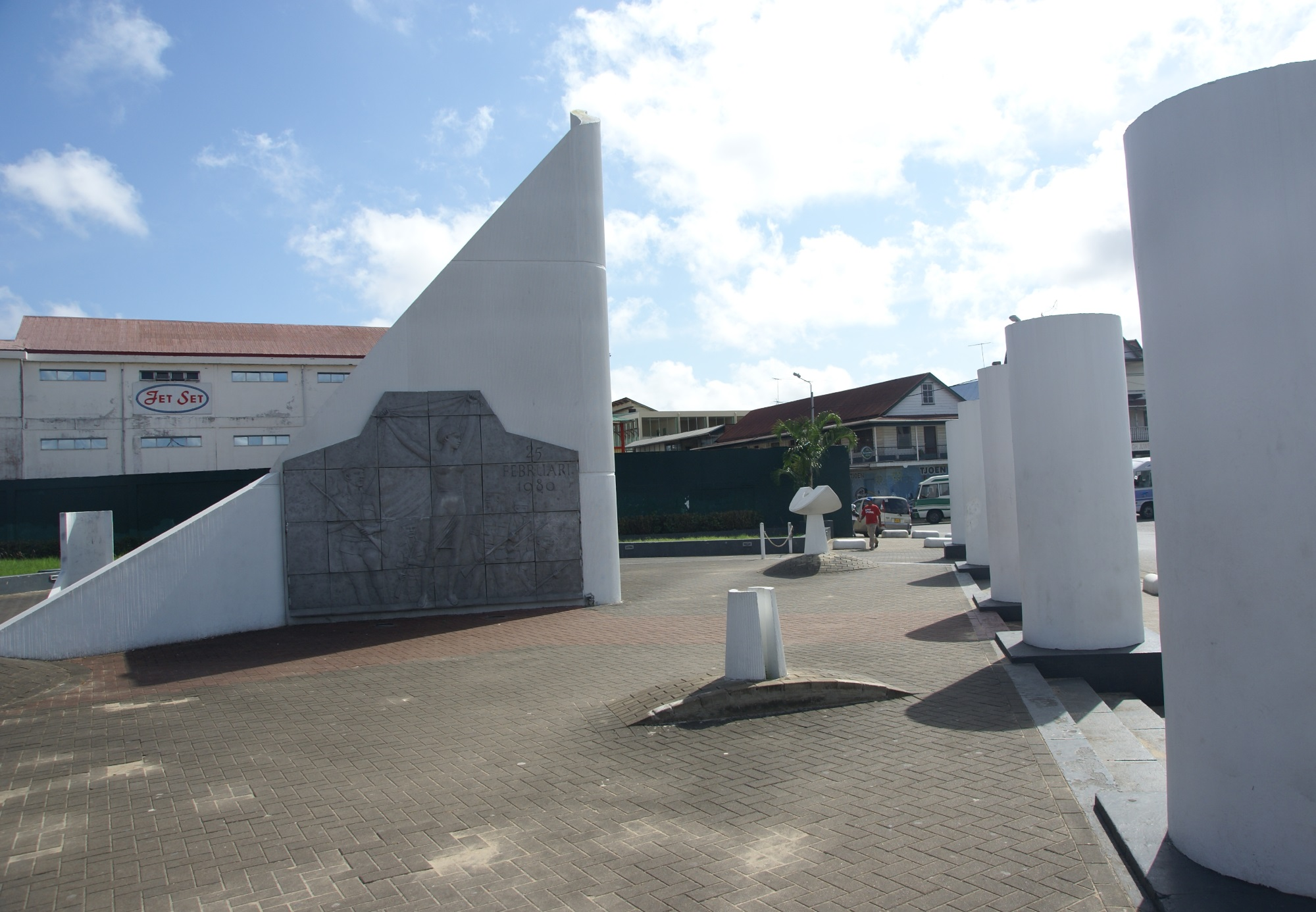 Monument of the Revolution, Waterkant, Paramaribo, Surinam.